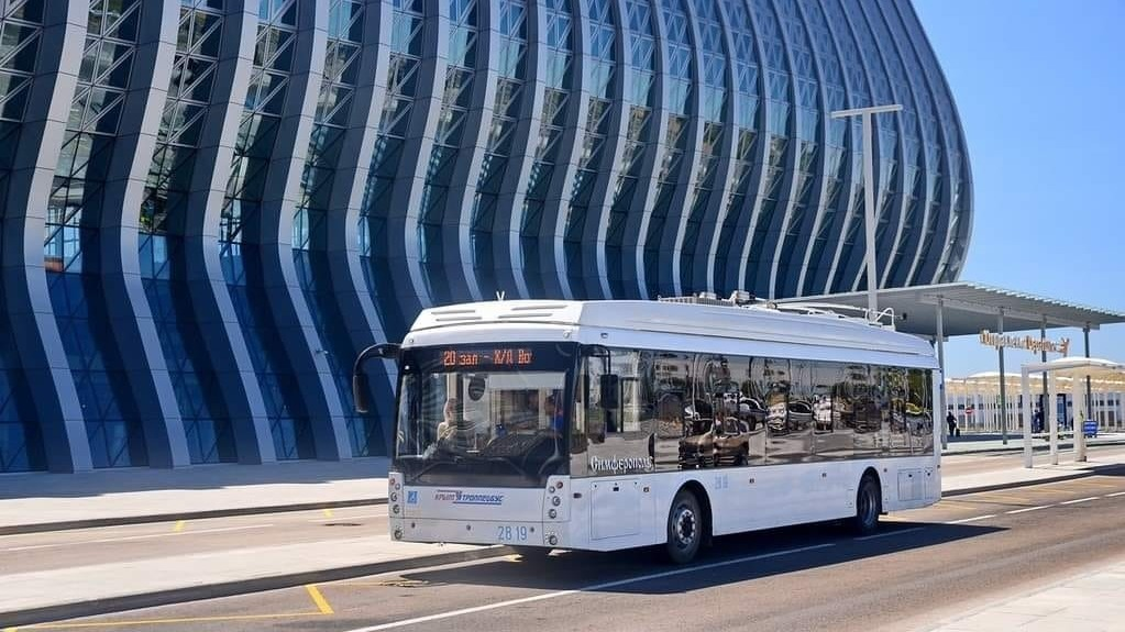 Trolleybus in Simferopols international airport